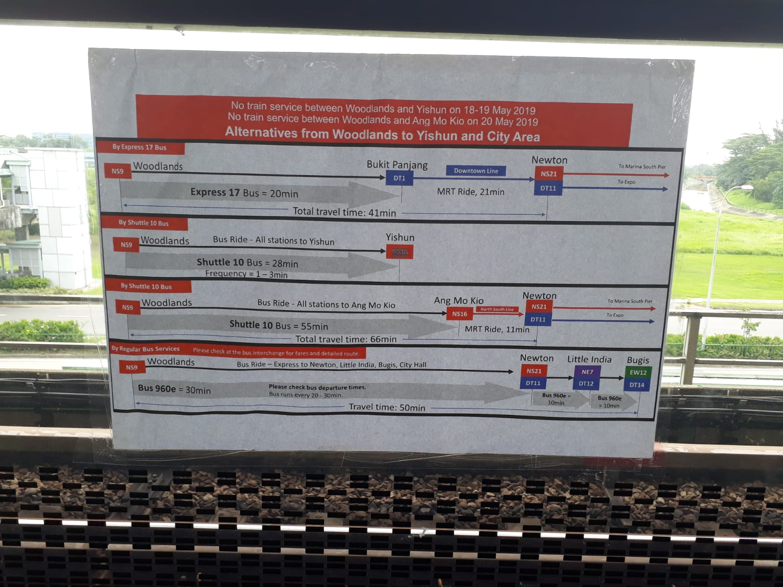 Notice from SMRT